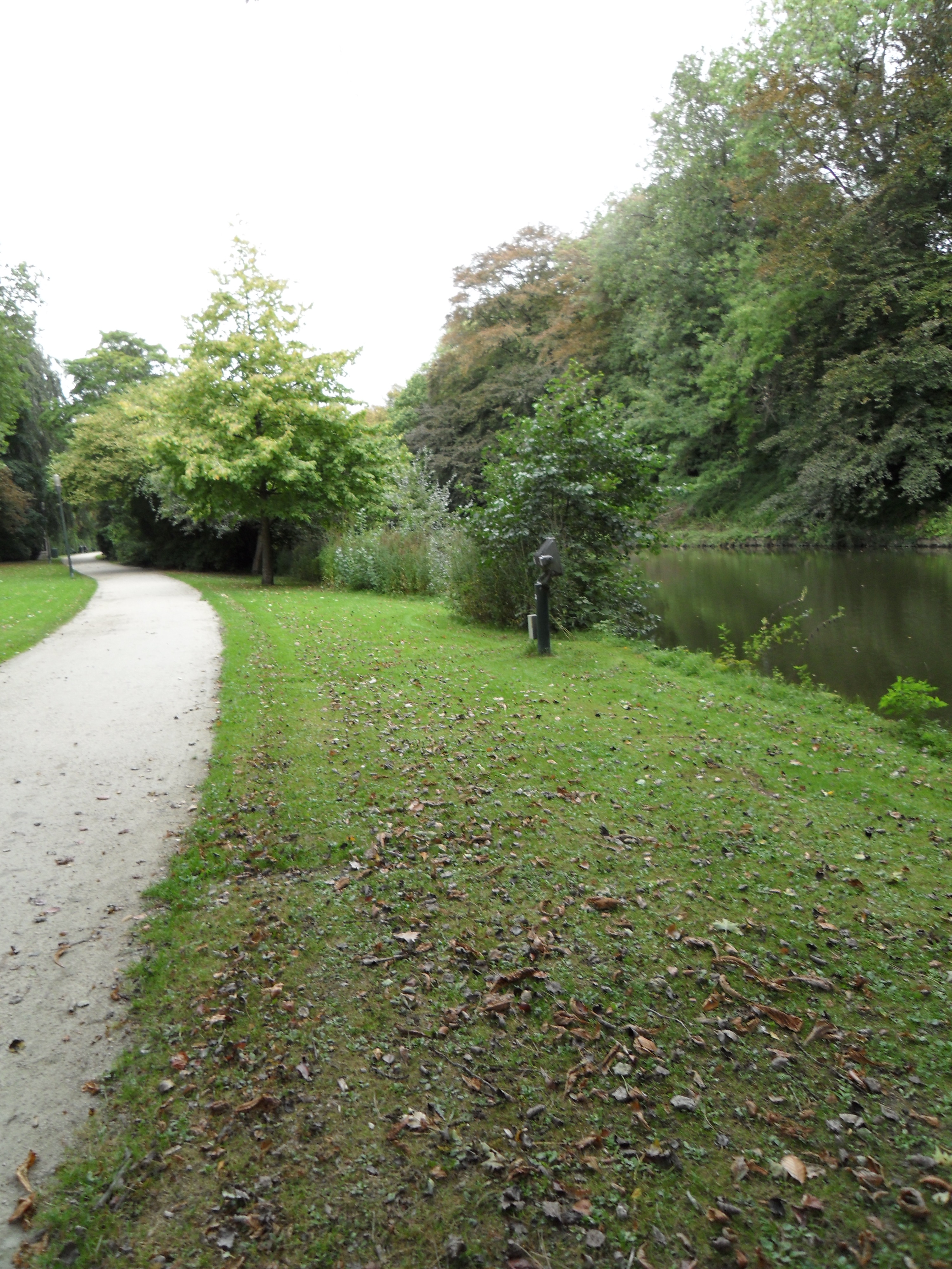 Buiten Smedenvest in Bruges